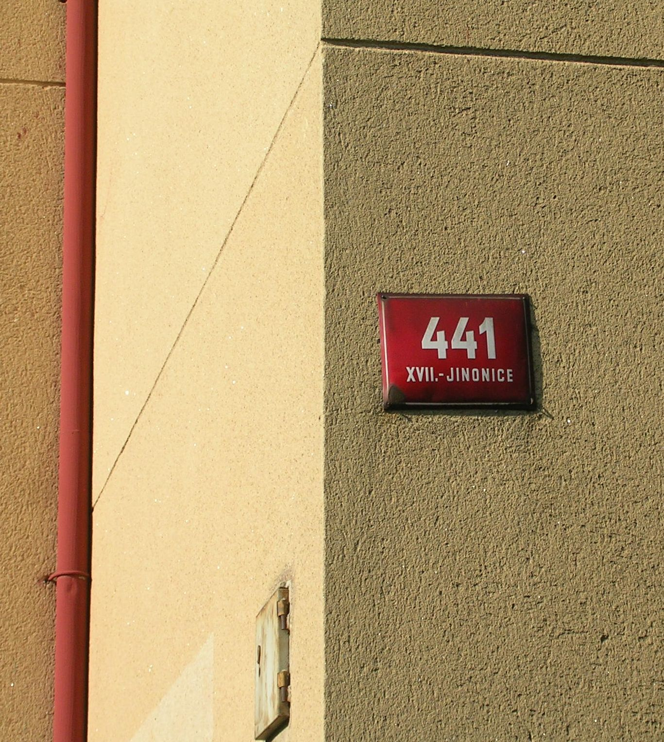 Jinonice, Prague, the Czech Republic. A house number.